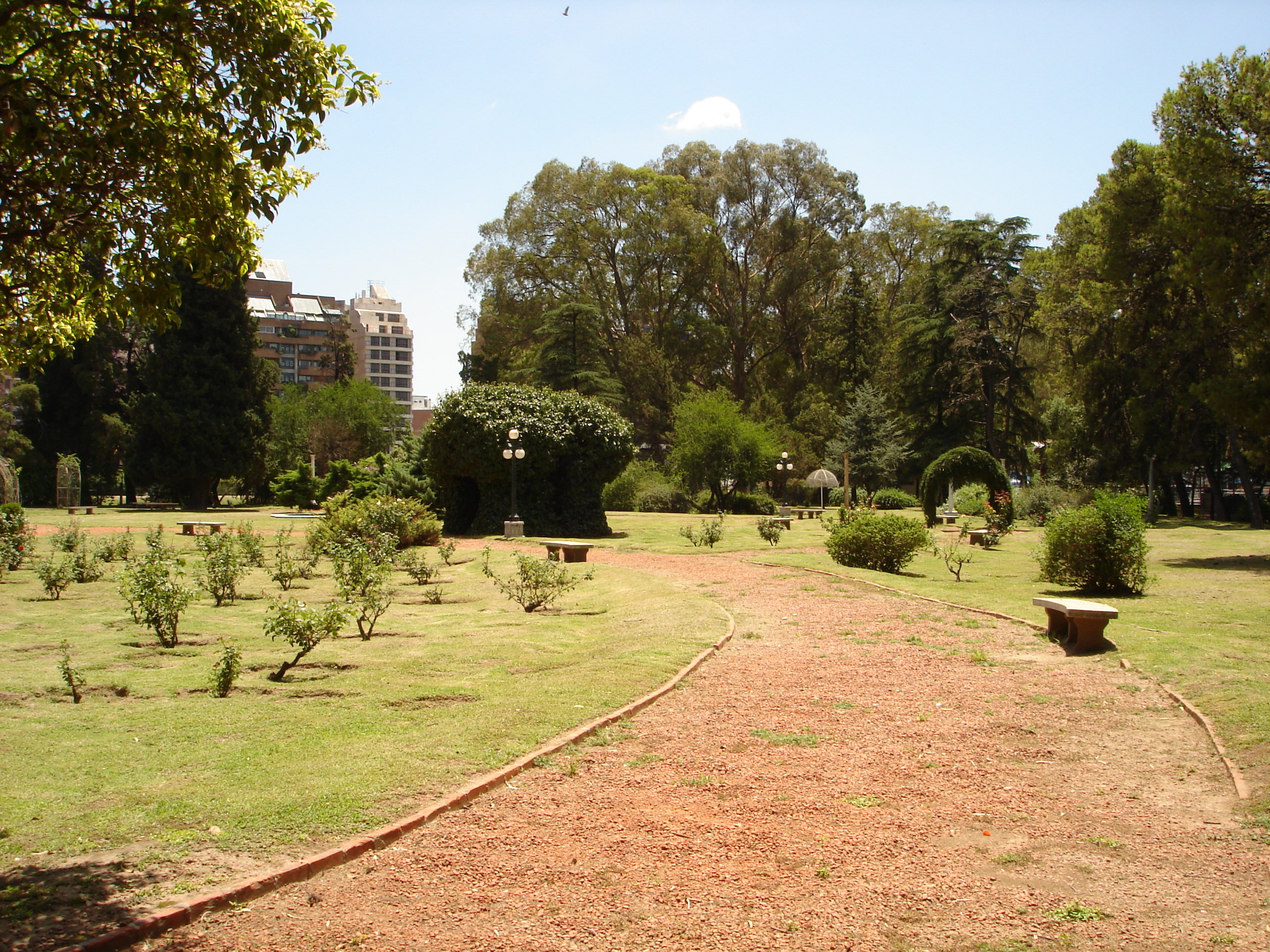 Sarmiento park. Cordoba, Argentina.